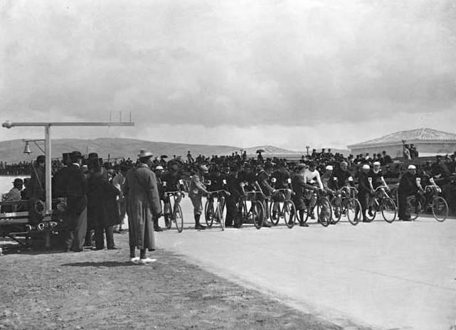 The start the men's Road race during Summer Olympics 1896